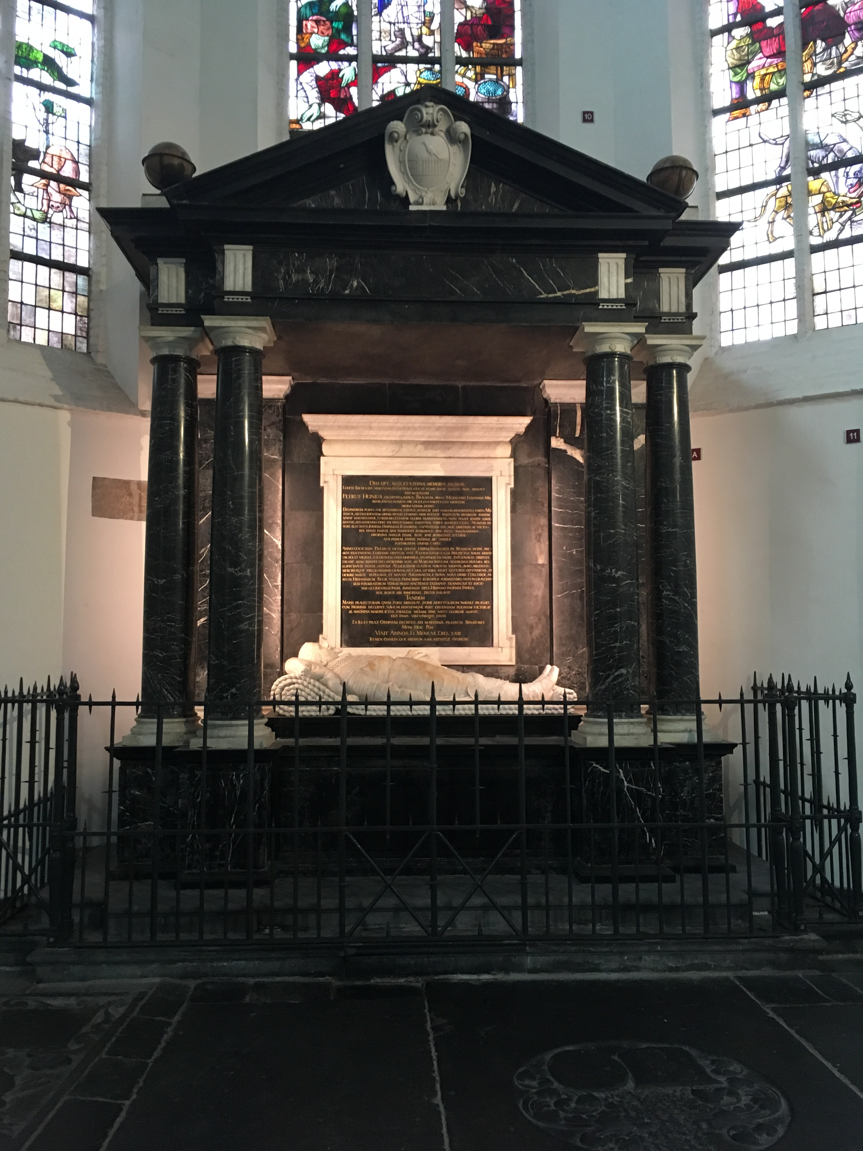 Piet Hein memorial in Oude_Kerk (Delft)